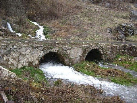 Stone bridge near "Ribarstvo Slap" west of Žepa village.